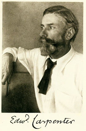 Edward Carpenter (1844–1929), by Fred Holland Day (1864–1933).